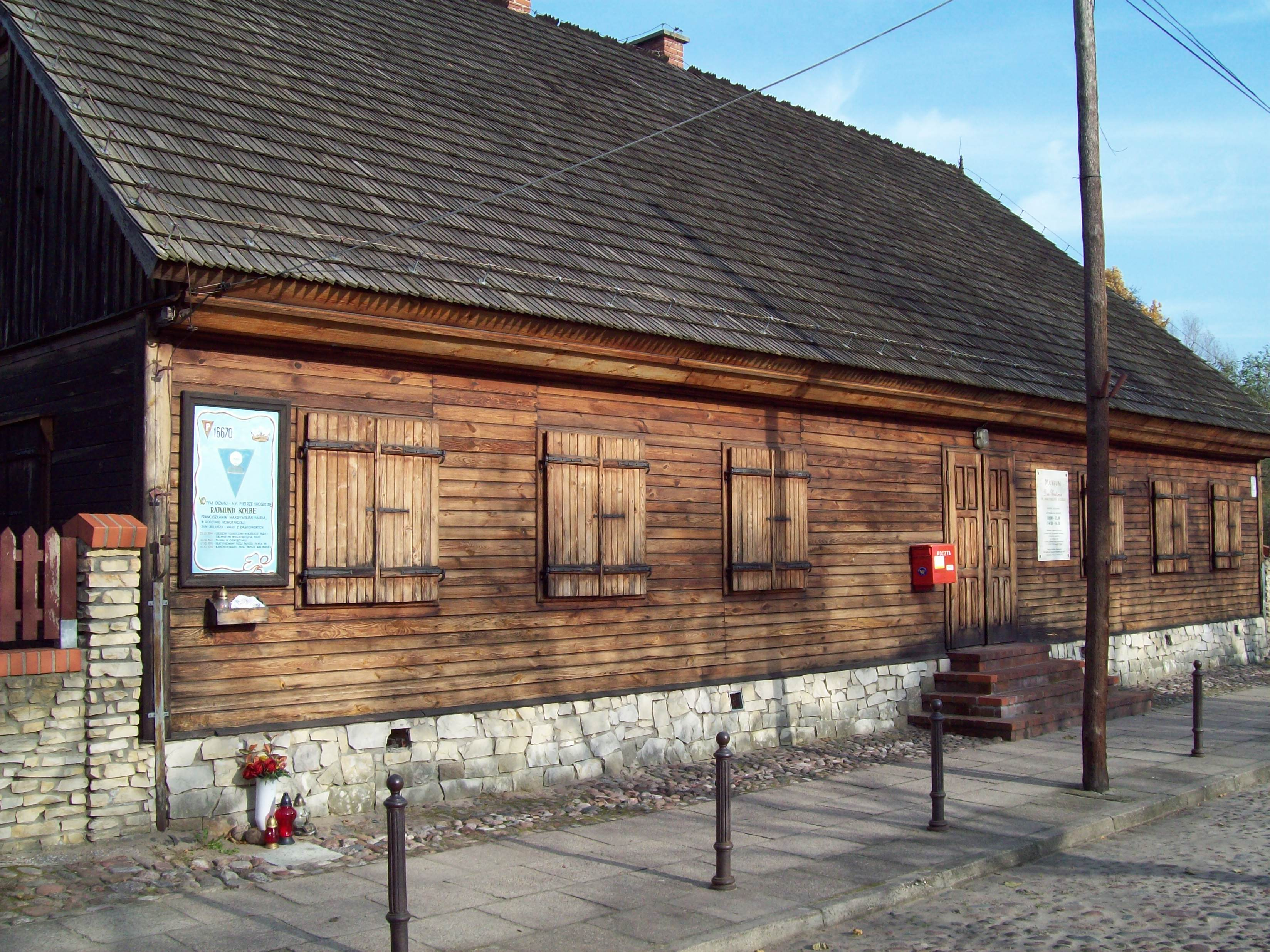 St. Maximilian's birth house